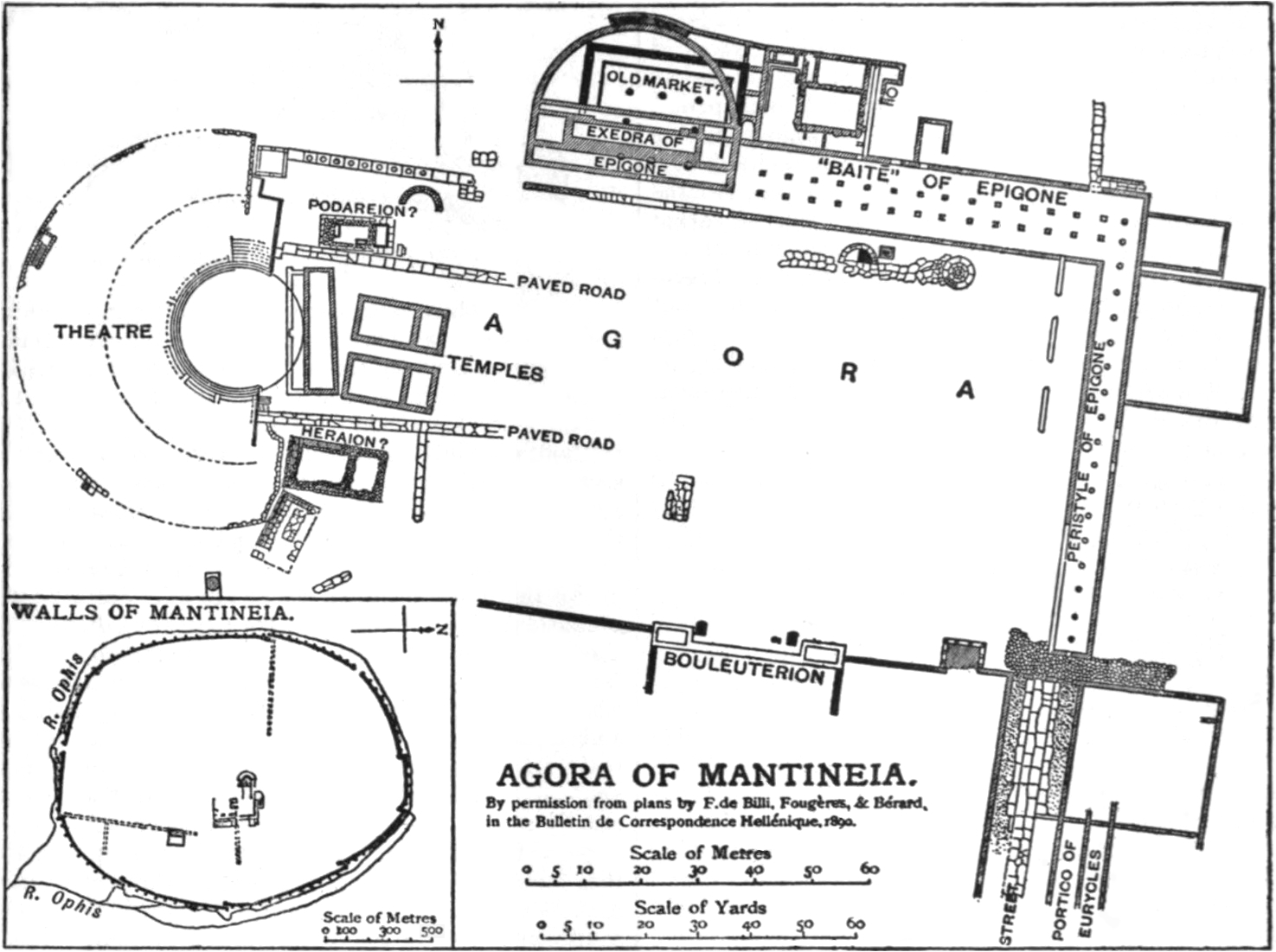 Map of the excavation of the Greek city of Mantinea.